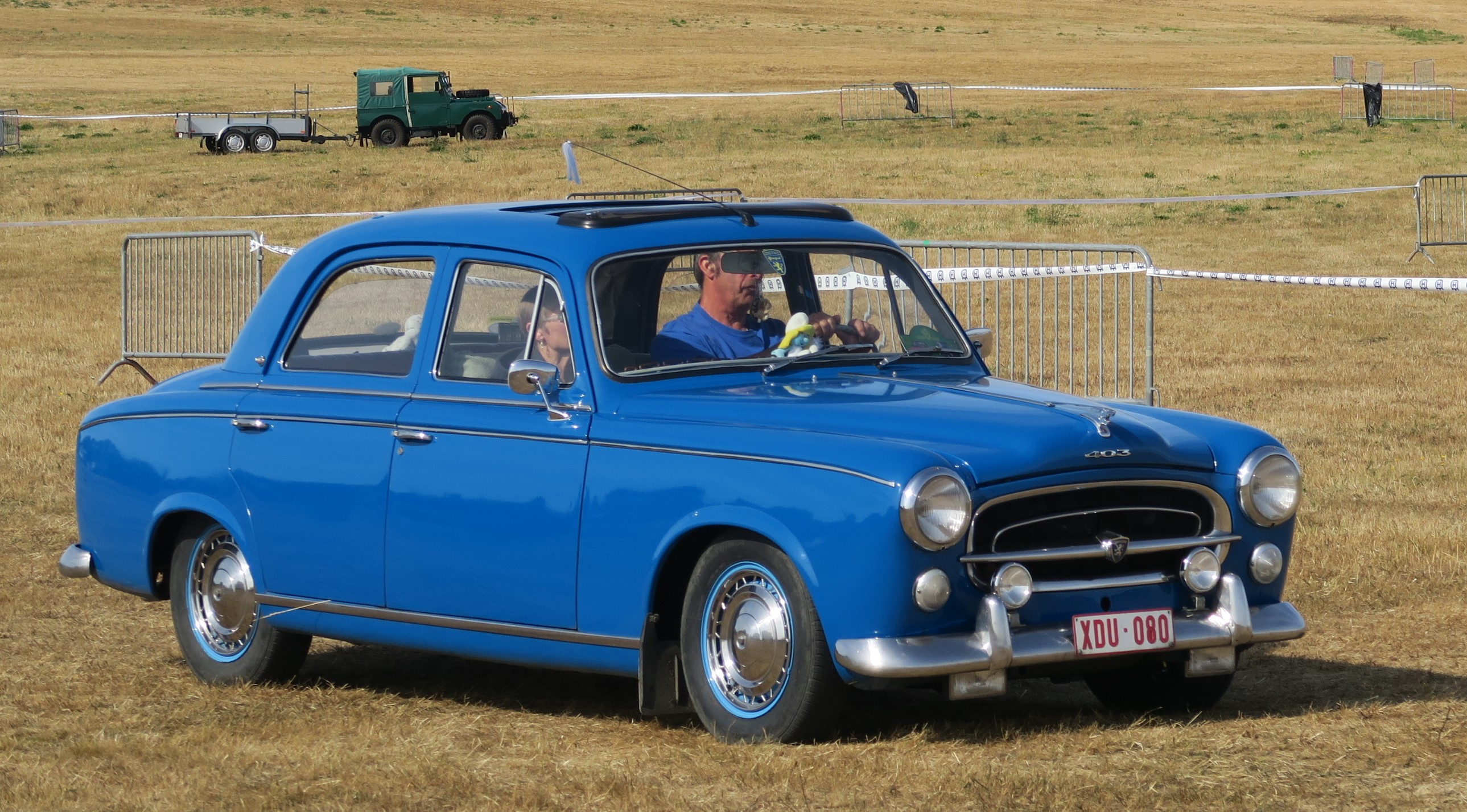 Peugeot 403 in shocking blue